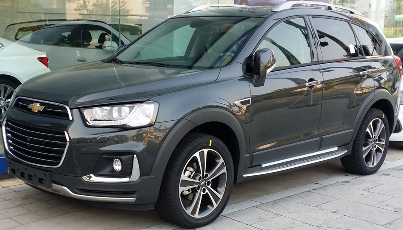 Chevrolet Captiva